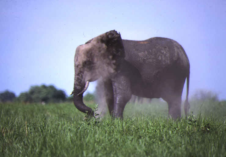 Elephant having an dust bath in Botswana